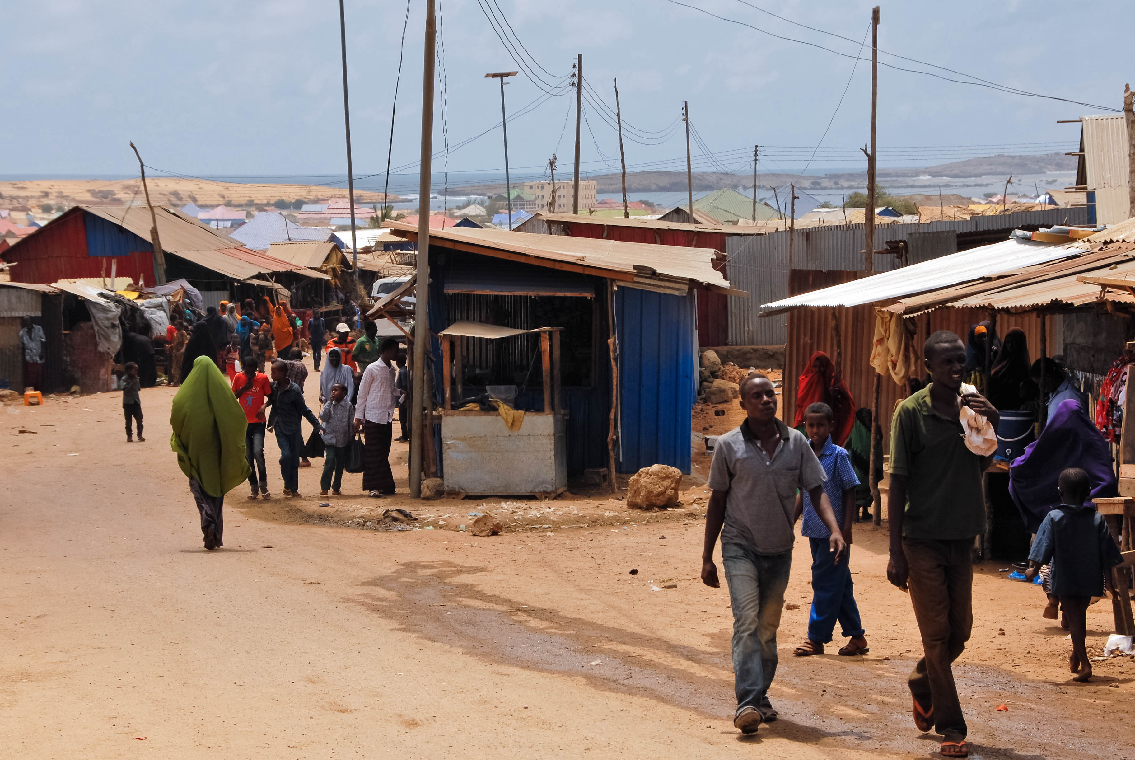 Kismayo Dalxiiska camp /area